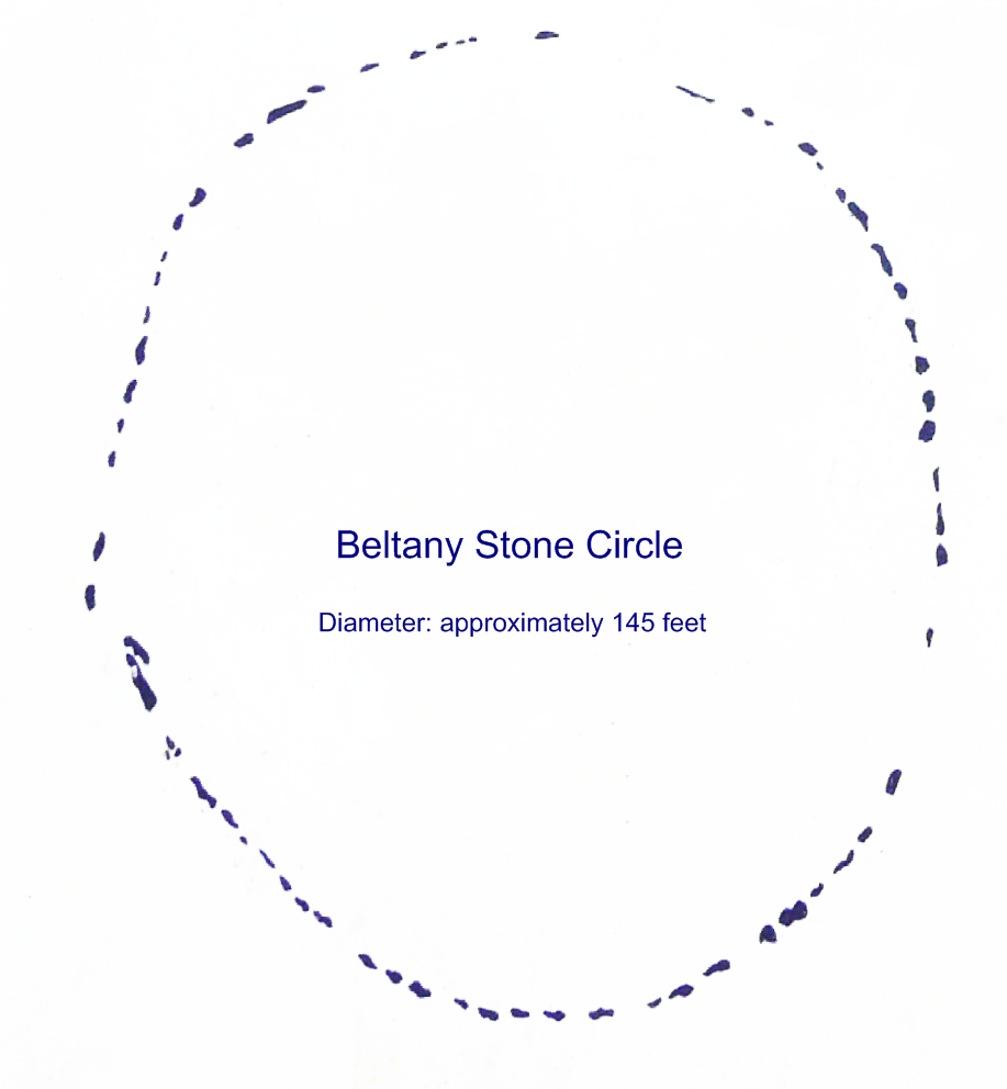 Diagram of the stones at Beltany Stone Circle